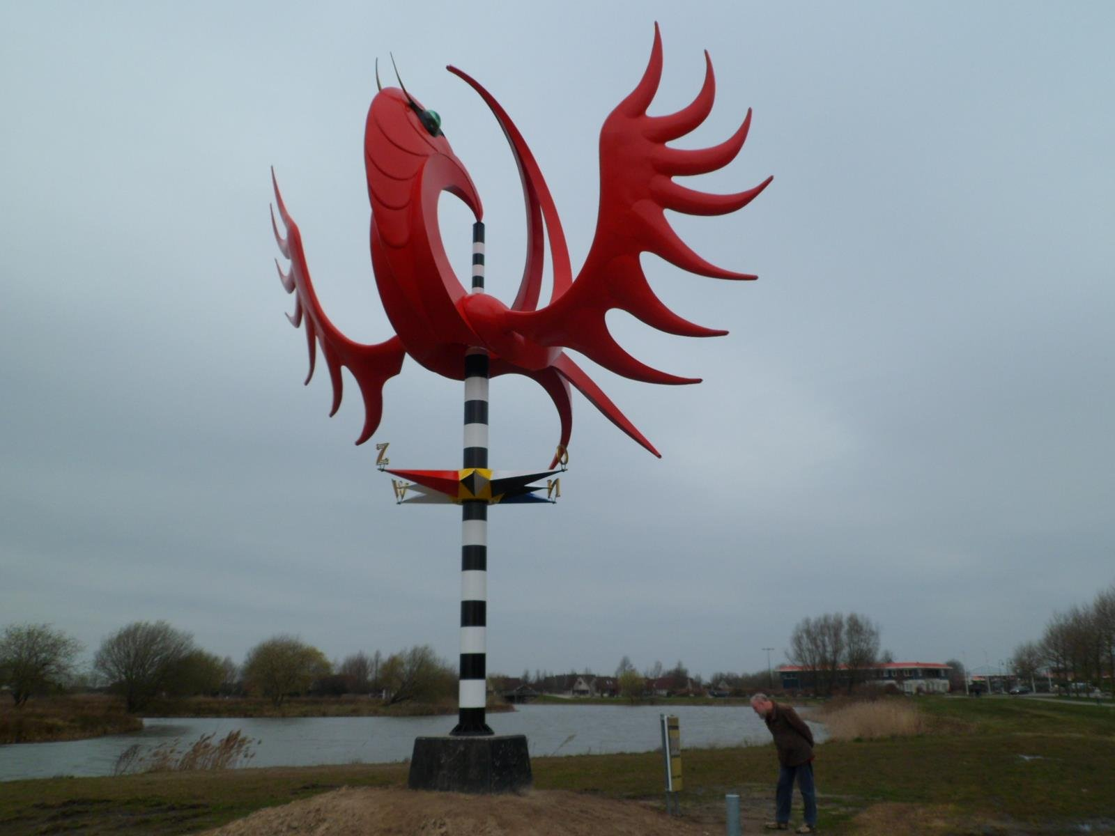 The Firebird, work of art in Parc Sandur, Emmen. Sculptor: Cornelis Huisman.